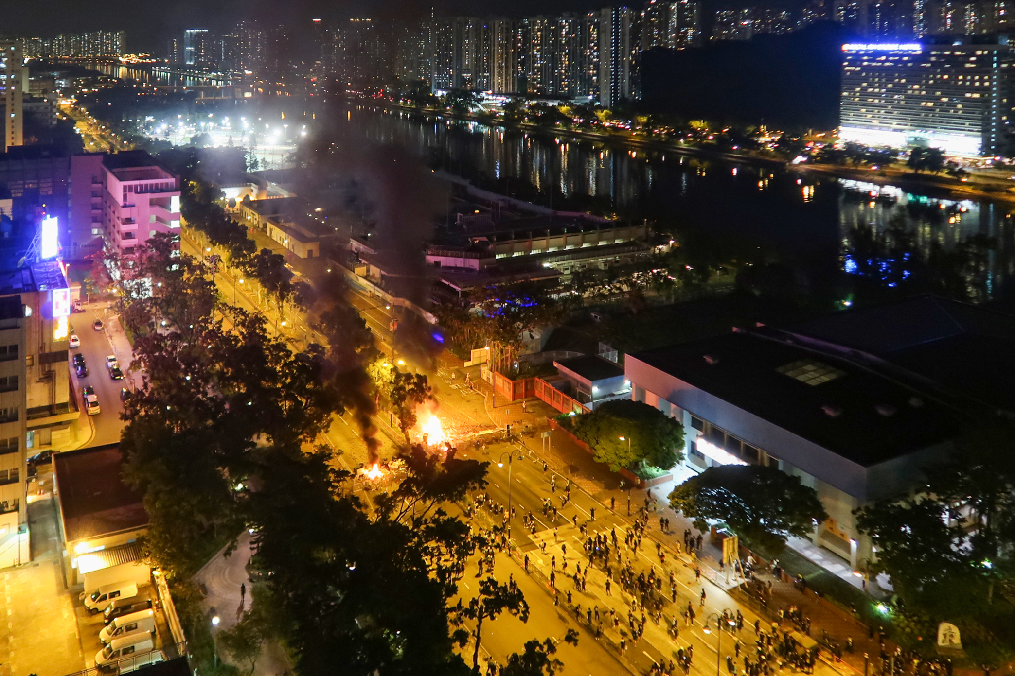 Yuen Wo Road roadblock fire